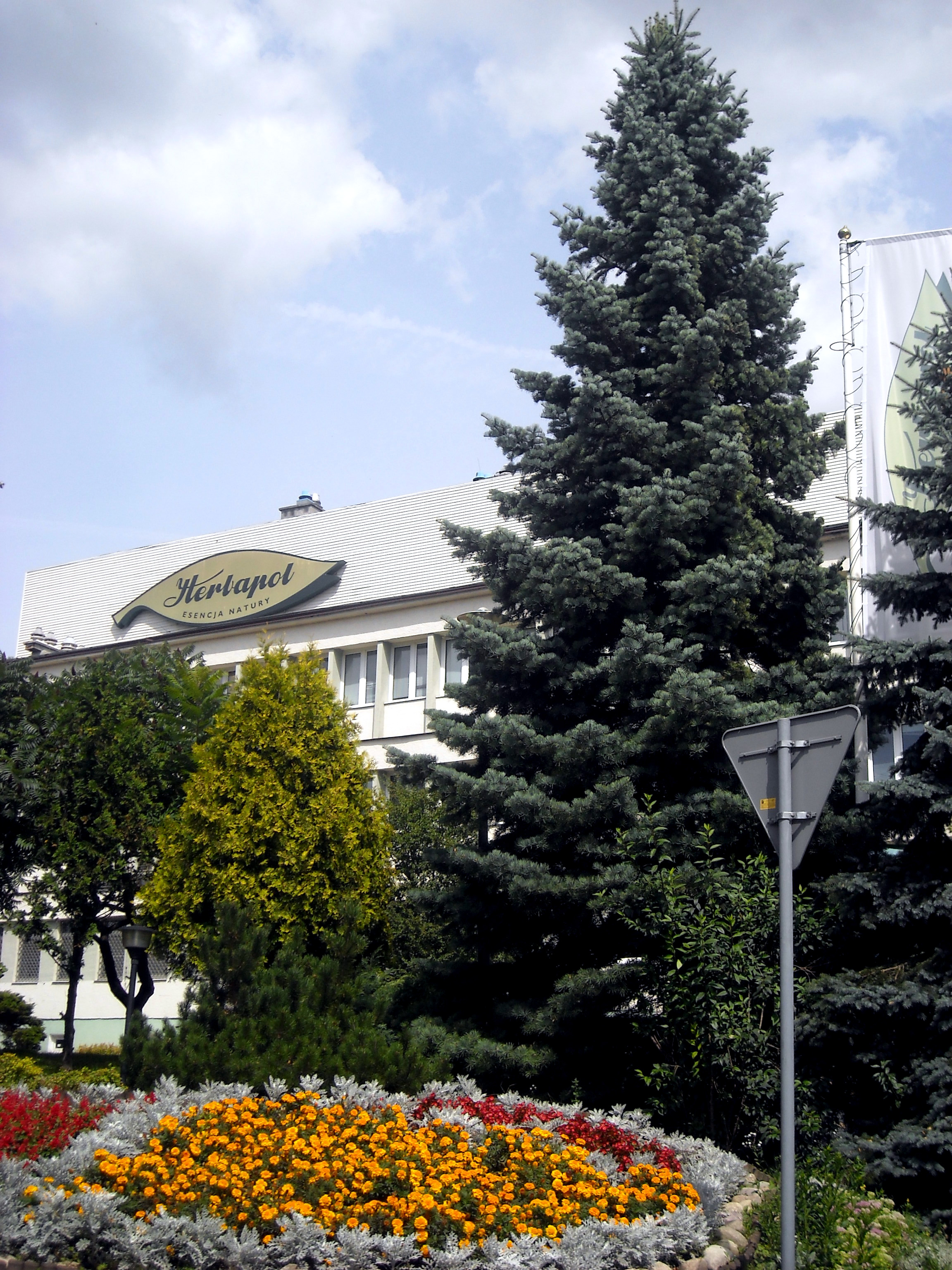 Herbapol S.A. - company headquaters at the Diamentowa Street in Wrotków district, Lublin